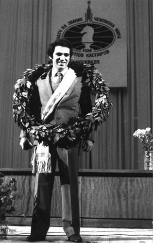 Garry Kasparov upon winning the World Chess Championship in 1985.